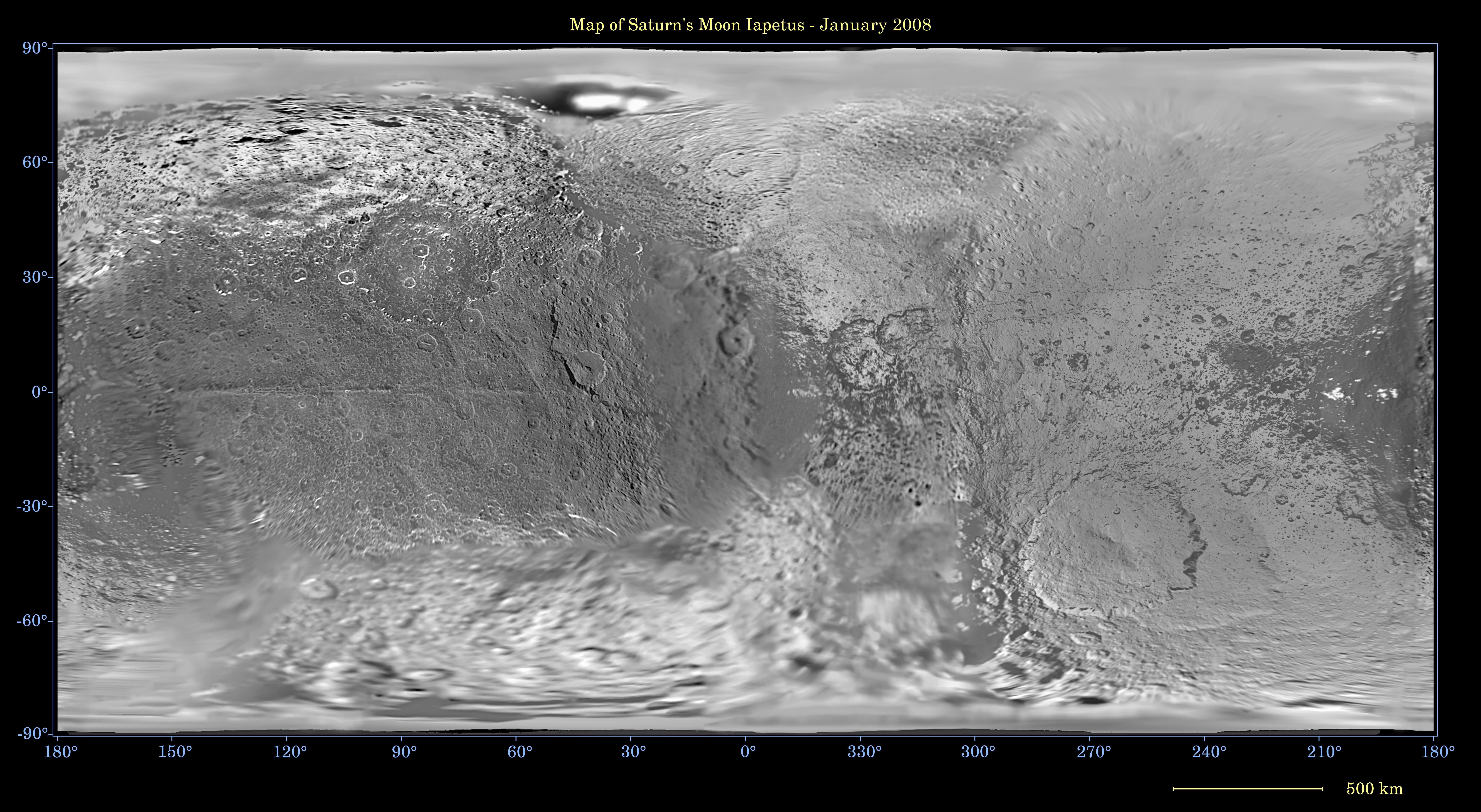 This global map of Iapetus was created using images taken during Cassini spacecraft flybys, with Voyager images filling in the poles. The map is an equidistant projection and has a scale of 803 meters (0.5 miles) per pixel. Some territory seen in this map was imaged by Cassini's cameras using reflected light from Saturn. The mean radius of Iapetus used for projection of this map is 736 kilometers (457 miles). The resolution of the map is 16 pixels per degree. This updated map has been shifted west by 4.5 degrees of longitude, compared to the previously released Cassini product (see PIA07778), in order to conform to the International Astronomical Union longitude system convention for Iapetus.